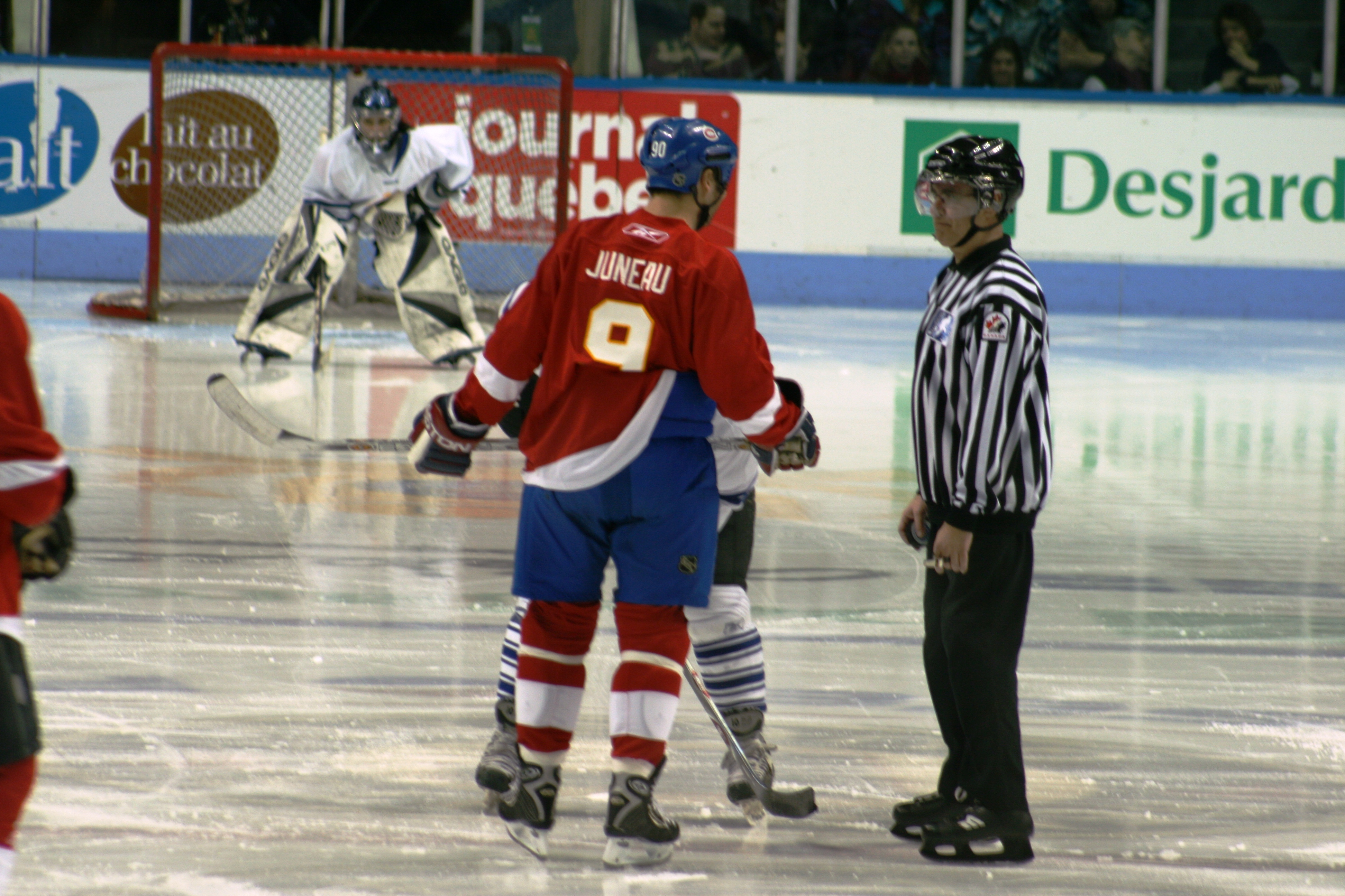 Joé Juneau playing at the Legends Games for the 50th edition of the Quebec International Pee-Wee Tournament.